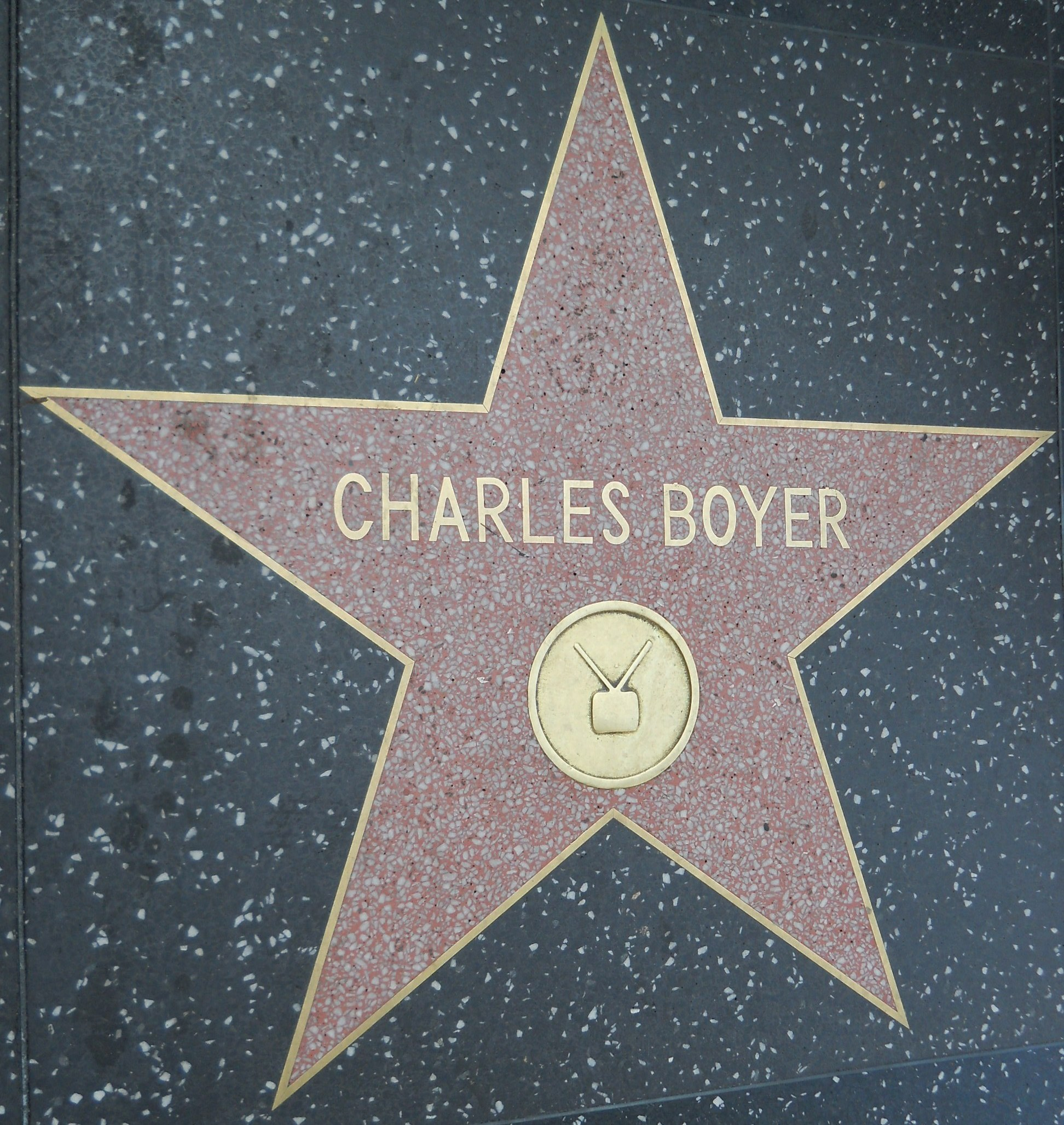 Actor Charles Boyer's star on the Hollywood Walk of Fame